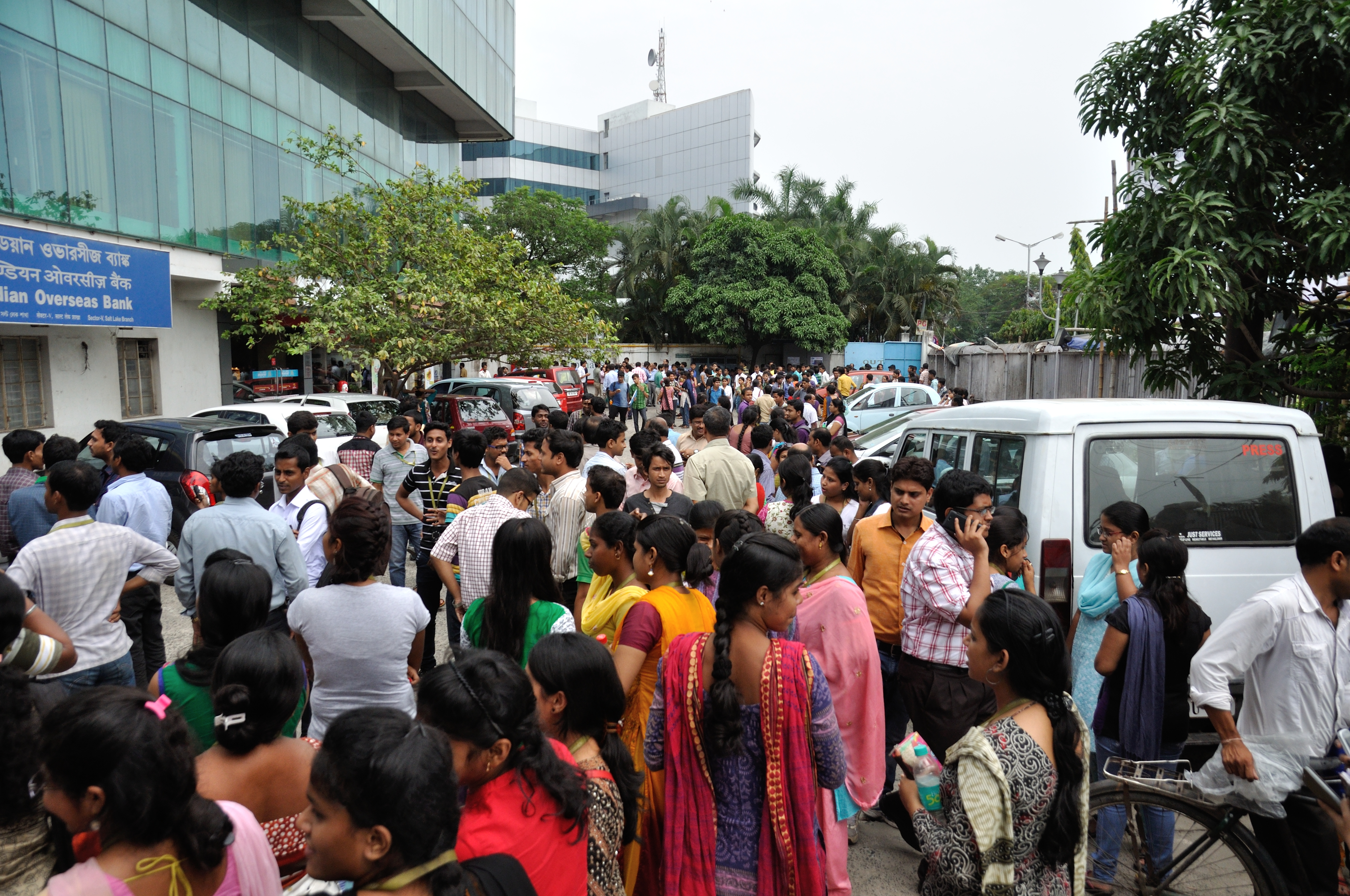 M 7.3 - Nepal Earthquake 2015-05-12 08:06:09.1 UTC Location: 27.78 N ; 86.20 E. Depth: 20 km. 32 km W of Nāmche Bāzār, Nepal / pop: 2,324 / local time: 13:51:17.3 2015-05-12. The earthquake leads people and employees in high rise buildings to move out on the street in Kolkata.